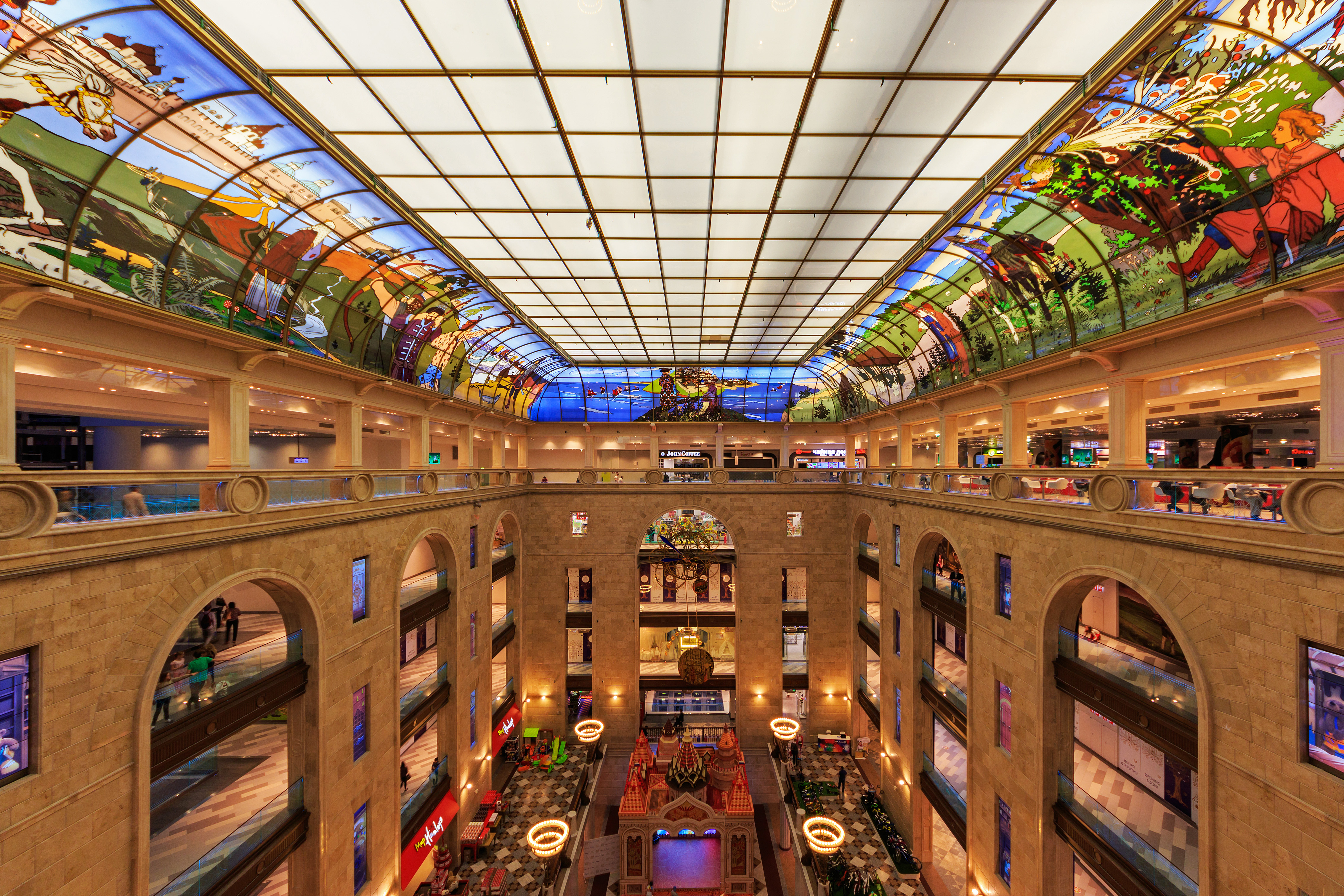 Interior of the Central Children’s Store at Lubyanka Square in Moscow